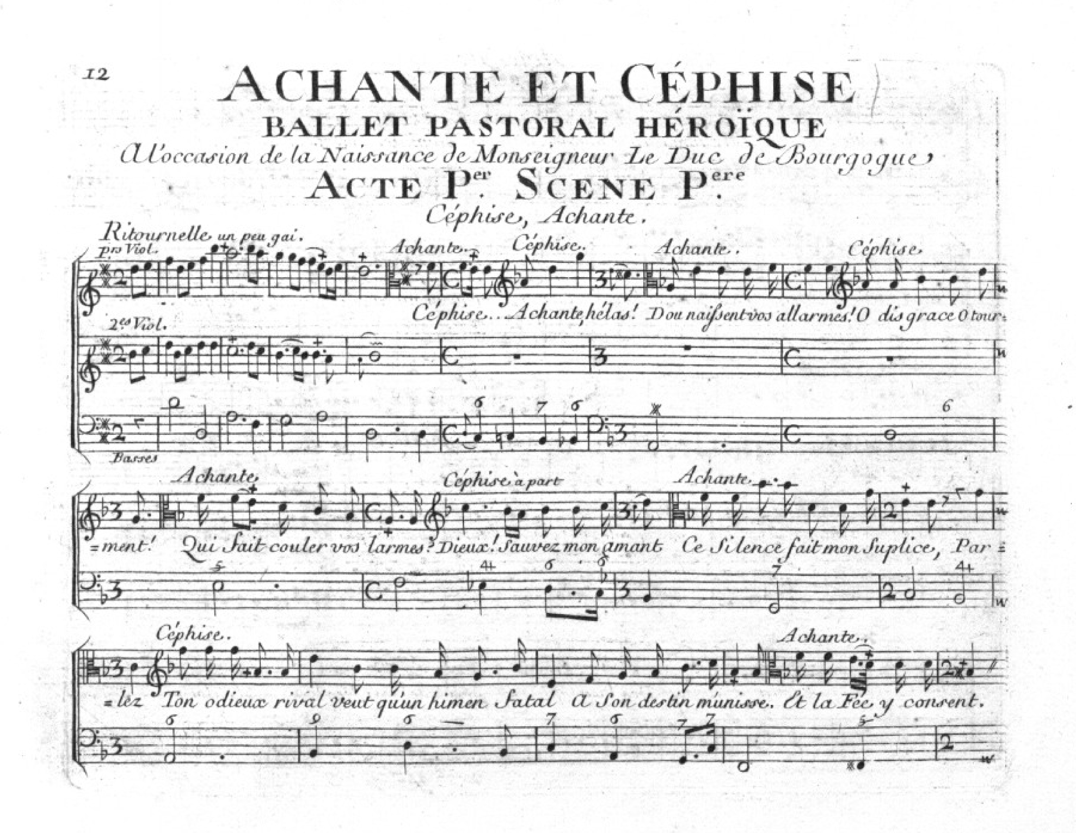 Jean-Philippe Rameau: Acanthe et Céphise (1751), Acte I (beginning)